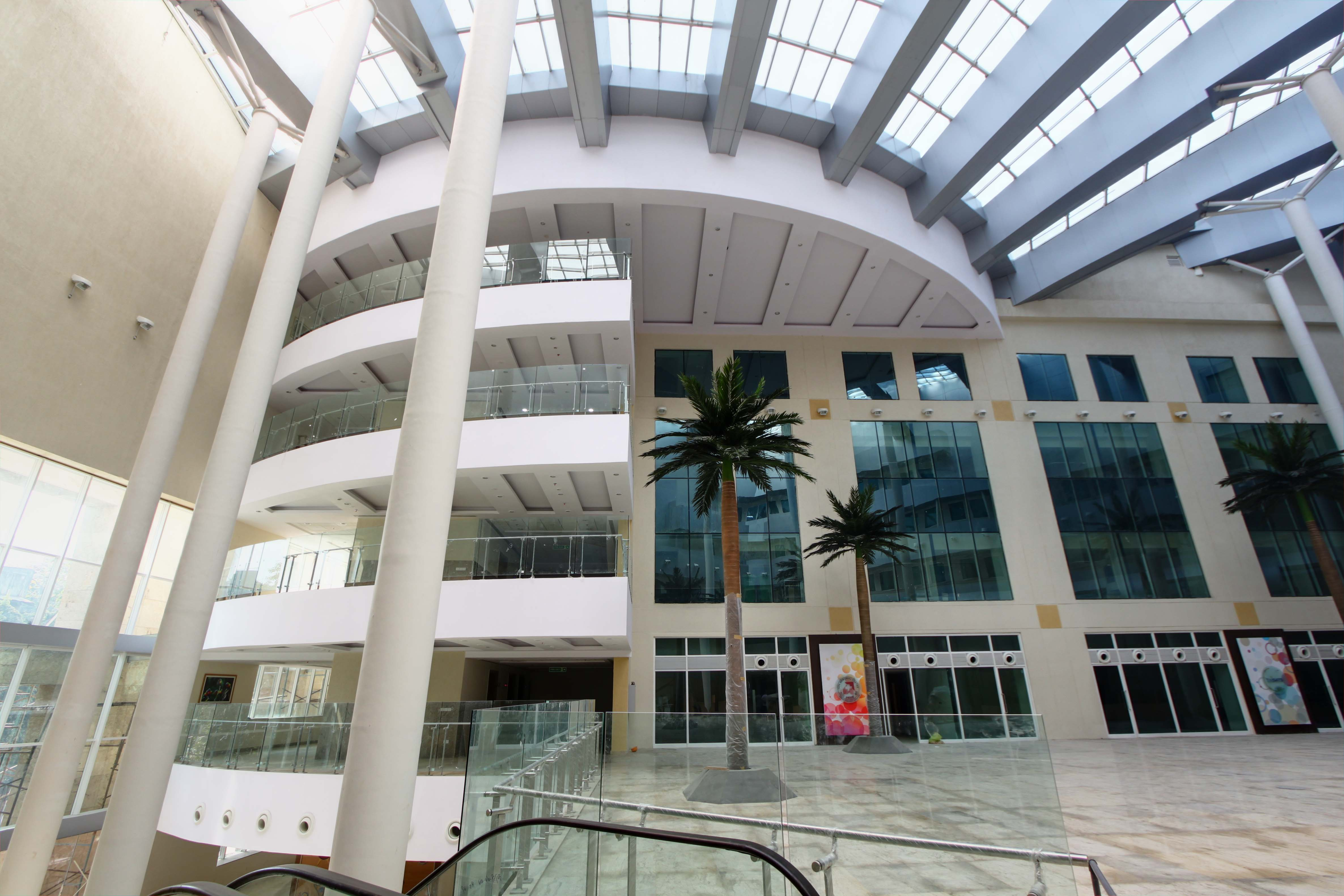 Homi Bhabha Block at Tata Memorial Hospital Mumbai